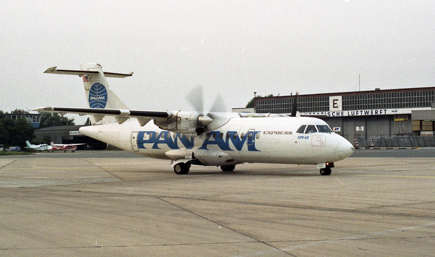 PAN AM ATR-42 Route Bremen-Berlin